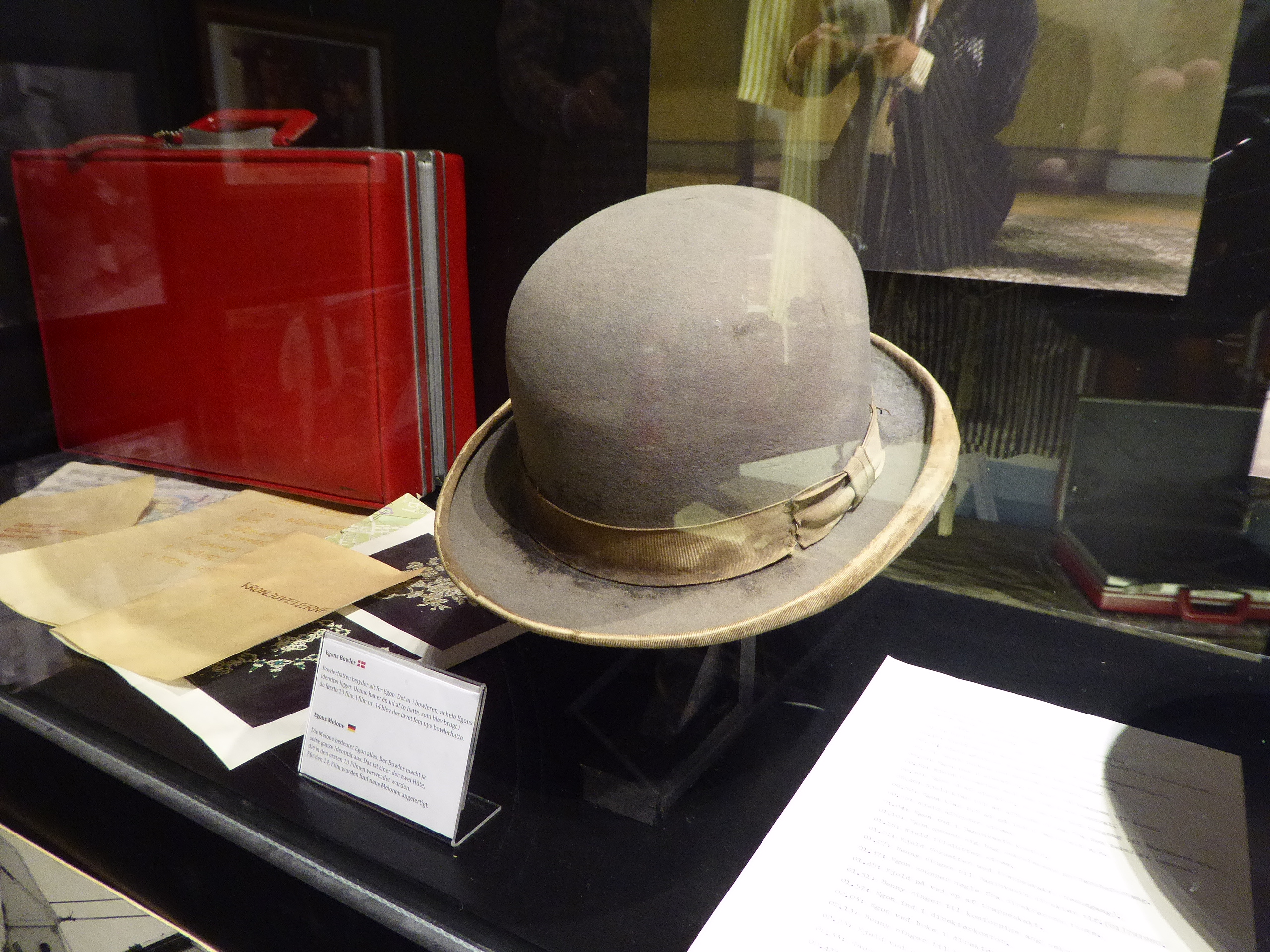 Bowler hat used by Egon Olsen played på Ove Sprogøe in the Danish Olsen-banden film series in a special exhibition at Nordisk Film in Copenhagen. This is one of two bowler hats used in the first 13 movies. For the last movie five new bowler hats was made.